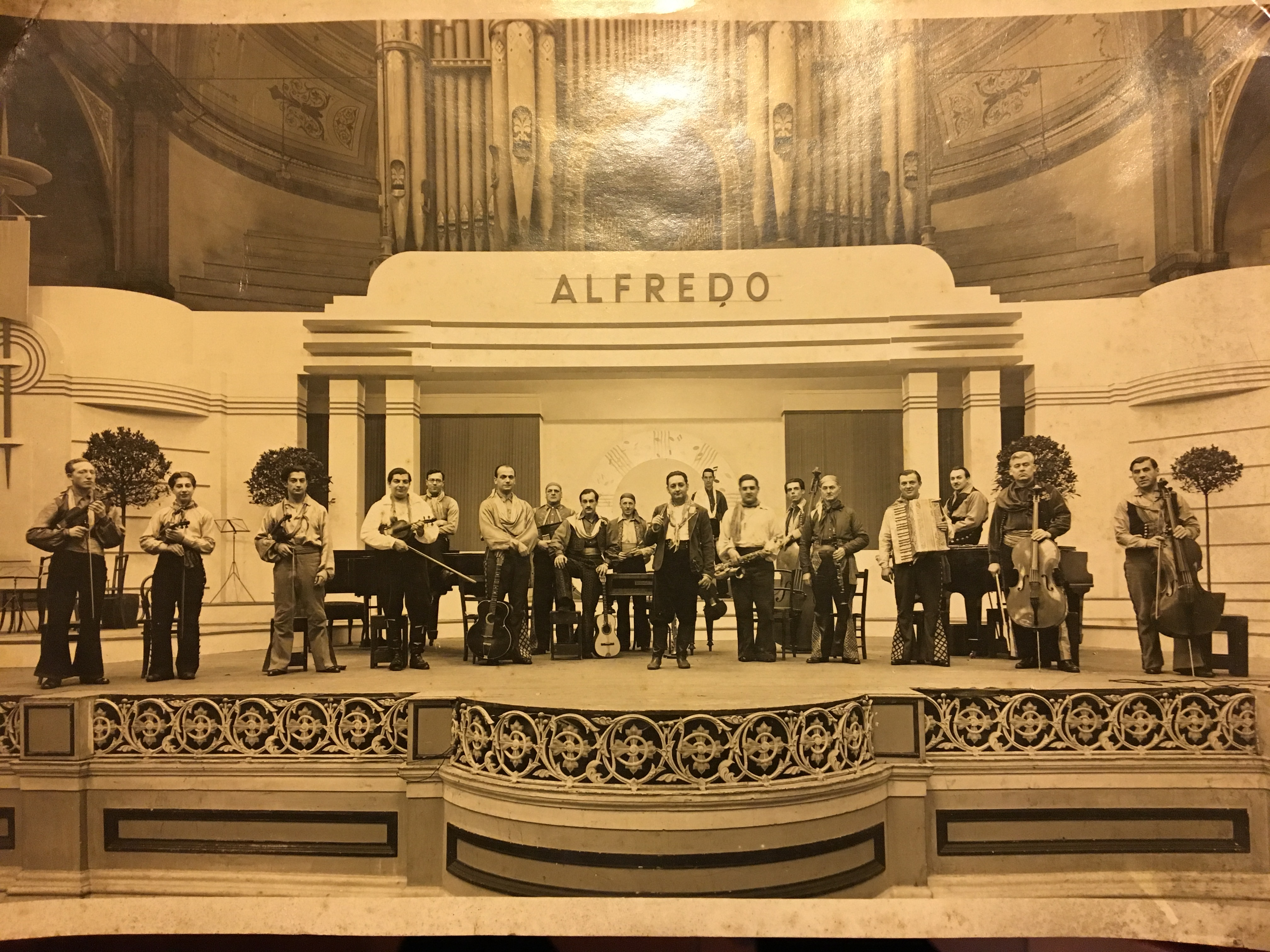 Picture of Alfredo and his Orchestra with Adalgiso Ferraris, Alexandria Palace, 2 October London 1935